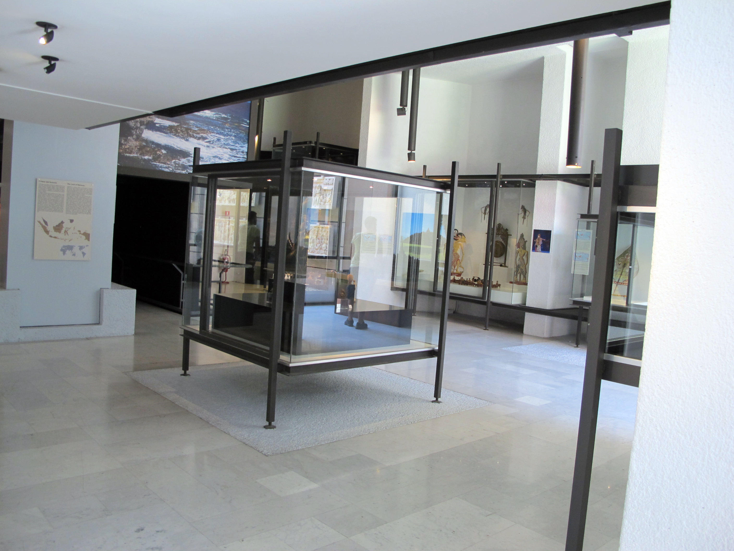 Ethnological Musem of Missions